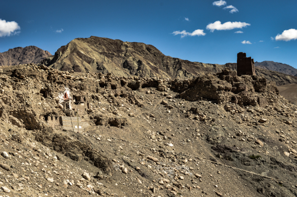 Saspol caves situated in the hills behind Saspol Village, Leh, Ladakh. Main painted cave is the one painted in red and white.